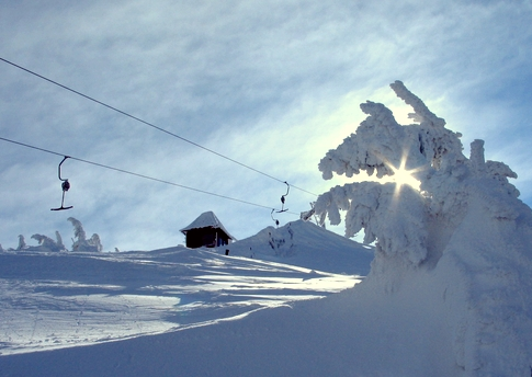 Beskid Żywiecki in Poland